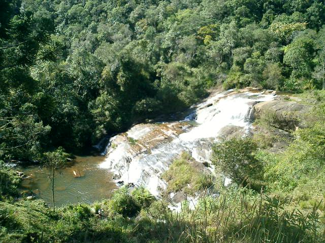 Paraíbuna's main waterfall, in Cunha city.